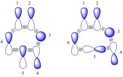 A drawing for the Moebius-Hueckel Concept Article